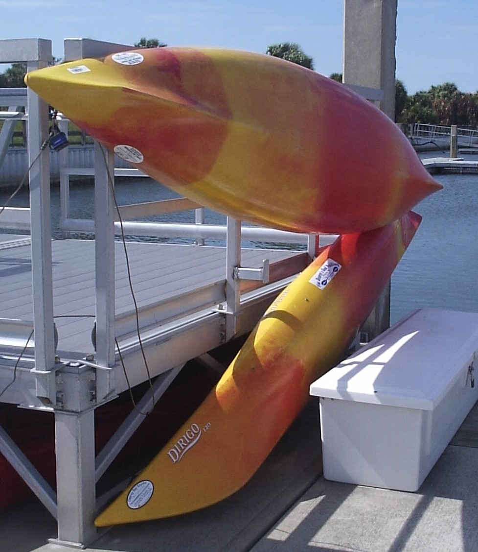 Taken by me on March 10, 2006. Olympus Camedia D-395 digital camera. Caladesi Island State Park canoes.Mikereichold 15:18, 11 March 2006 (UTC)